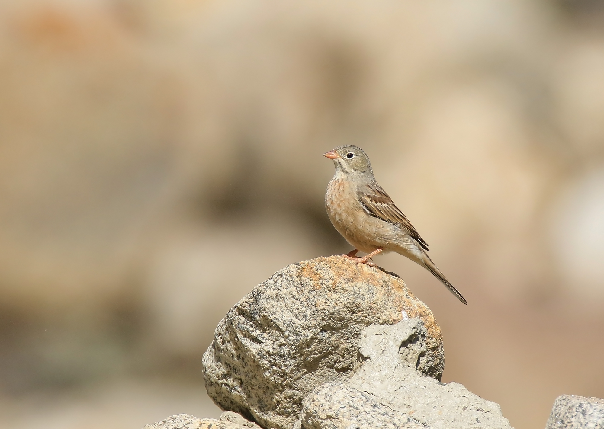 Grey-necked Bunting (Emberiza buchanani) captured at Borit, Gojal, Gilgit-Baltistan, Pakistan with Canon EOS 7D Mark II